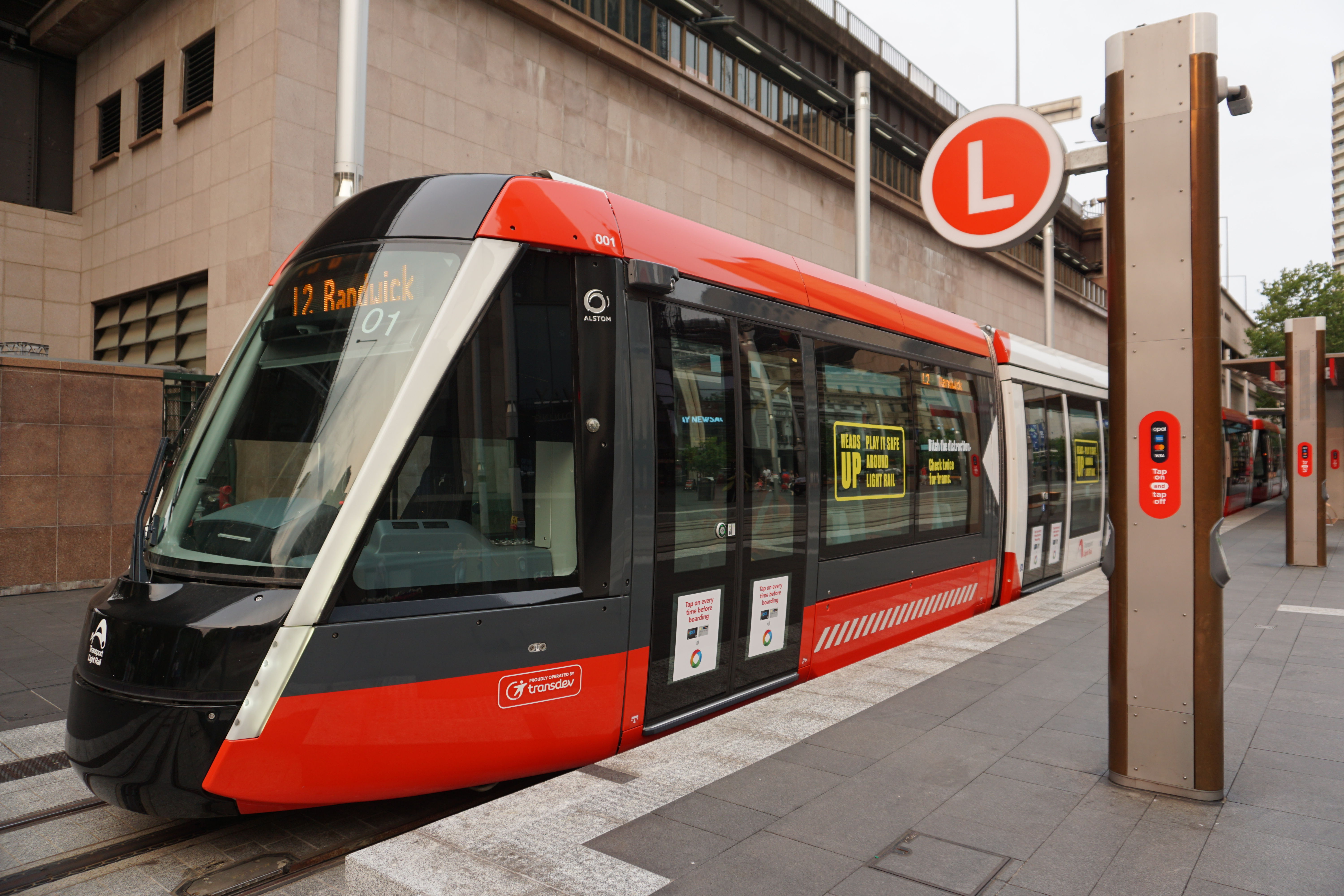 Sydney Light Rail at Circular Quay